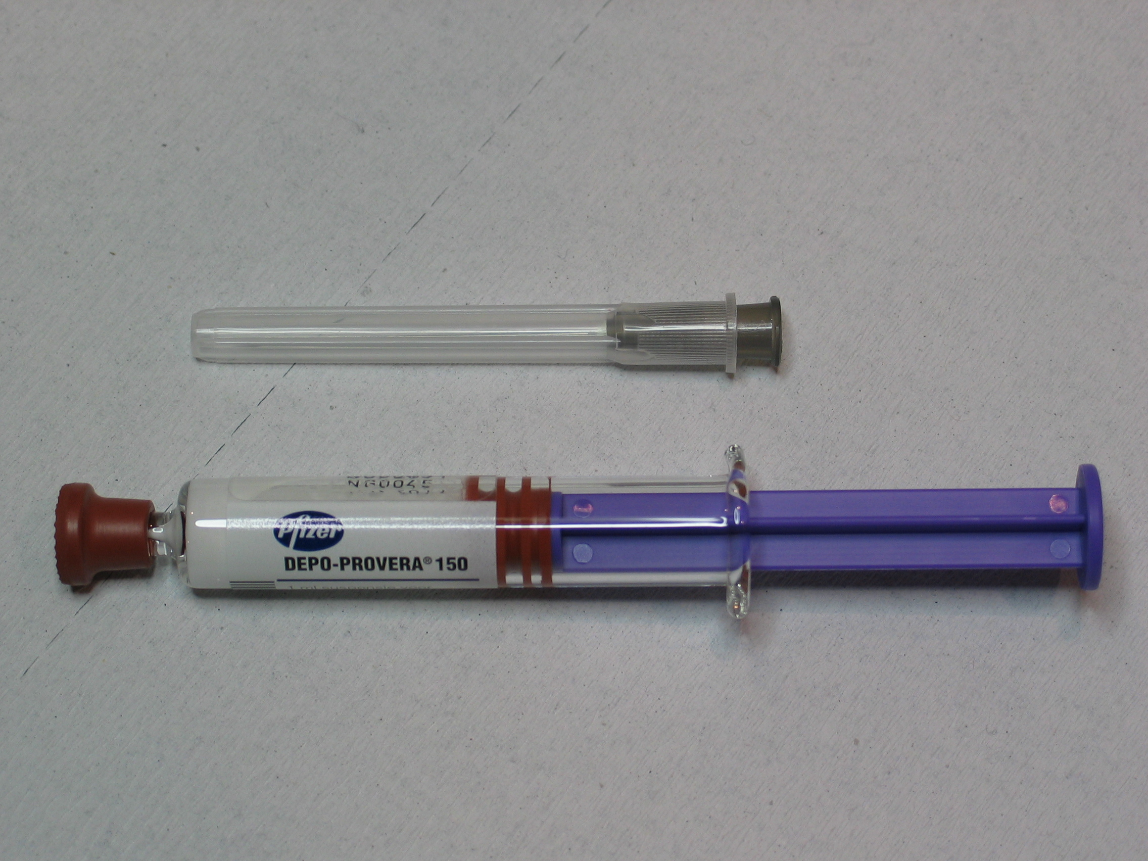 injection for birth control (Depo Provera)